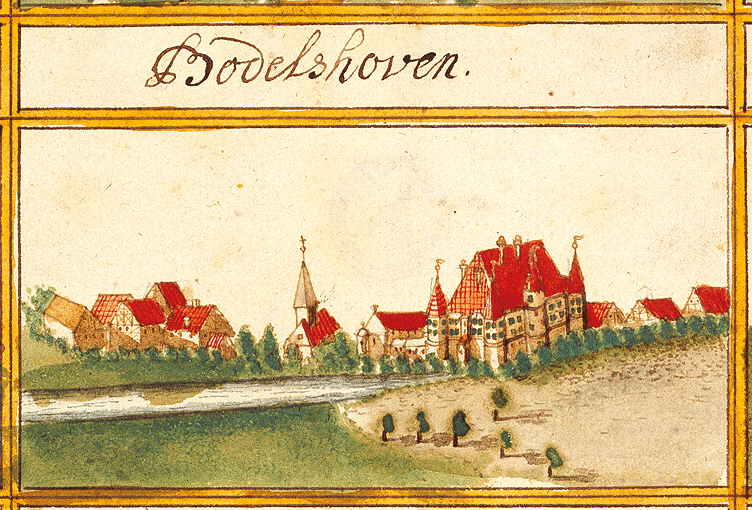 View of Bodelshofen, Wendlingen am Neckar, from the forest register books created by Andreas Kieser